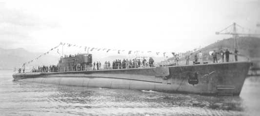 Italian submarine Enrico Tazzoli. Built 1935, lost 1943.